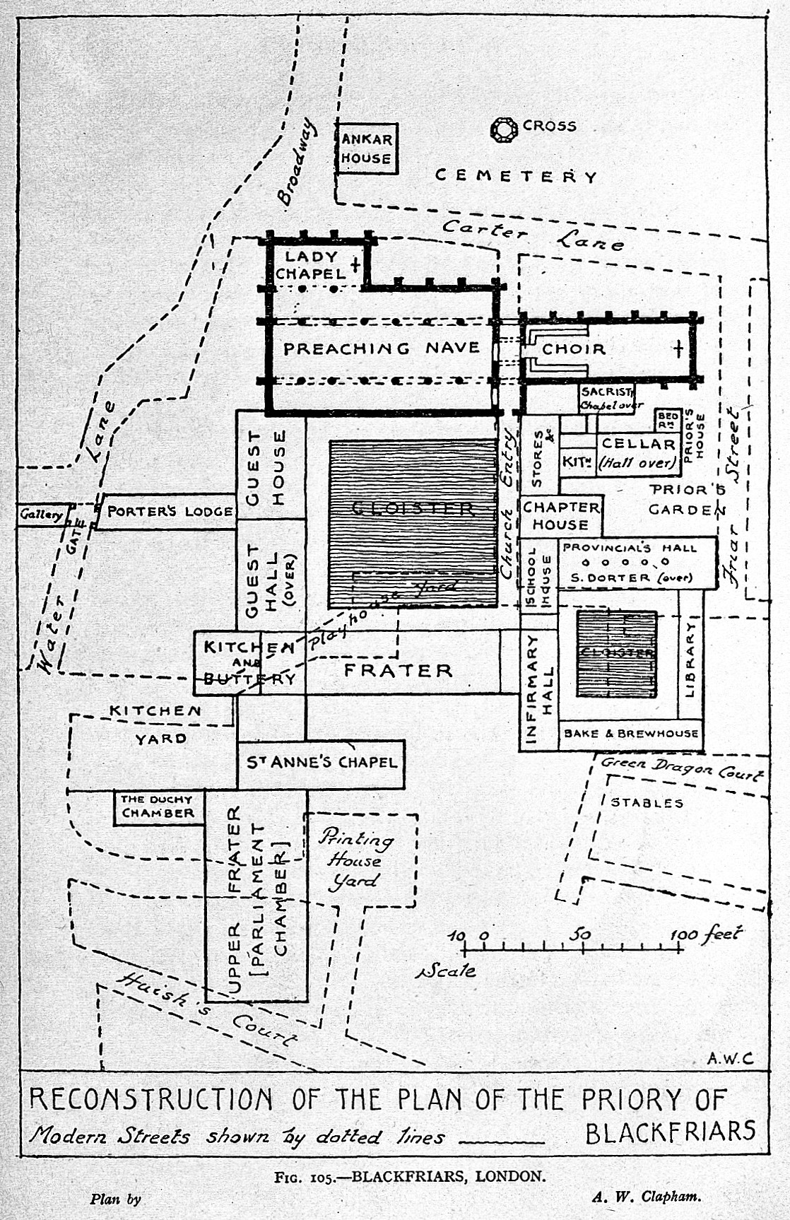 Reconstruction of the plan of Priory of Blackfriars. Wellcome Images Keywords: topography: london: backfriars